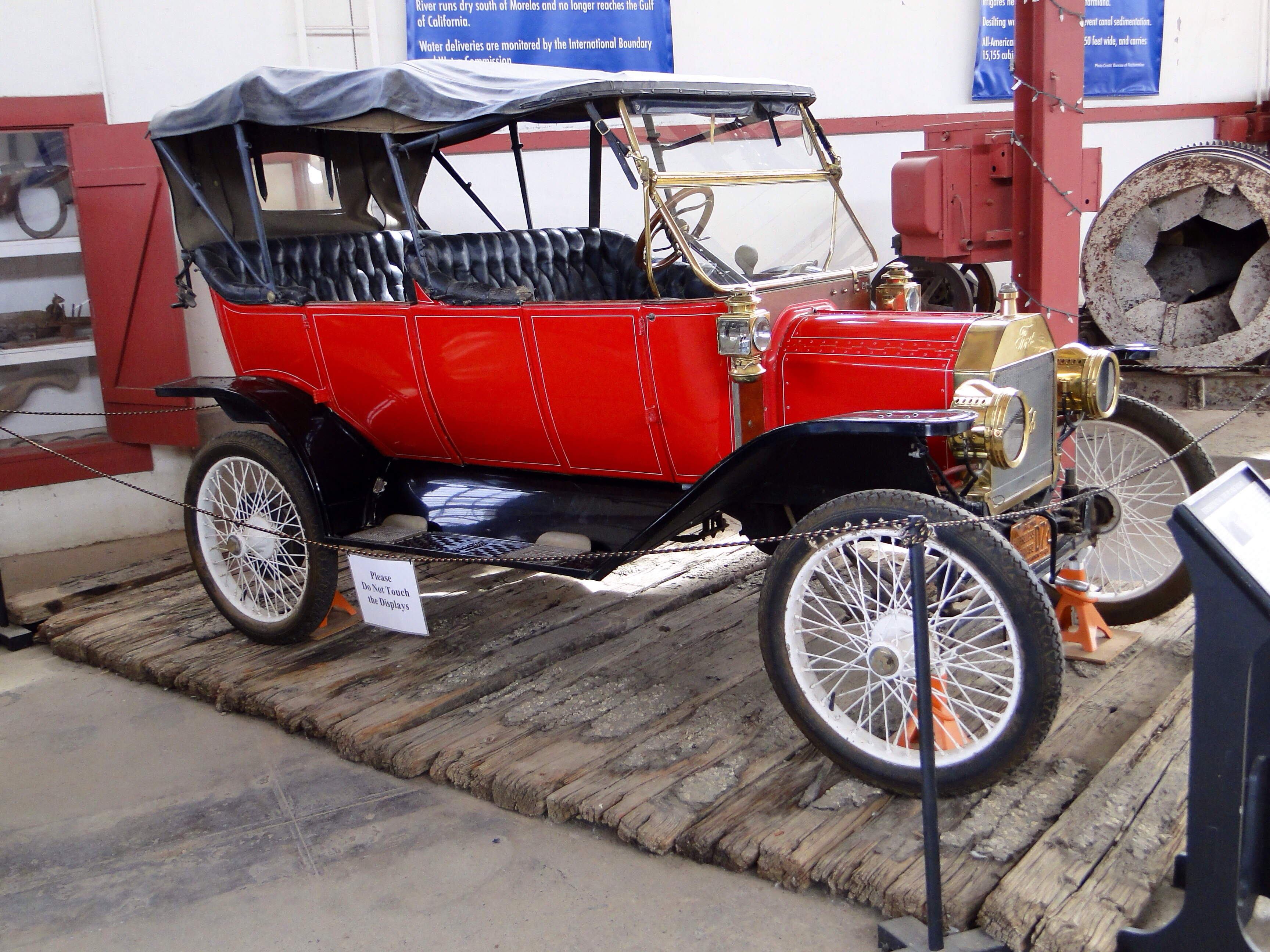 Remnants from the Old Plank Road through the Imperial Dunes and Ford automobile on display at the Yuma Quartermaster Depot Historic Site, 201 N. 4th Avenue, Yuma, Arizona